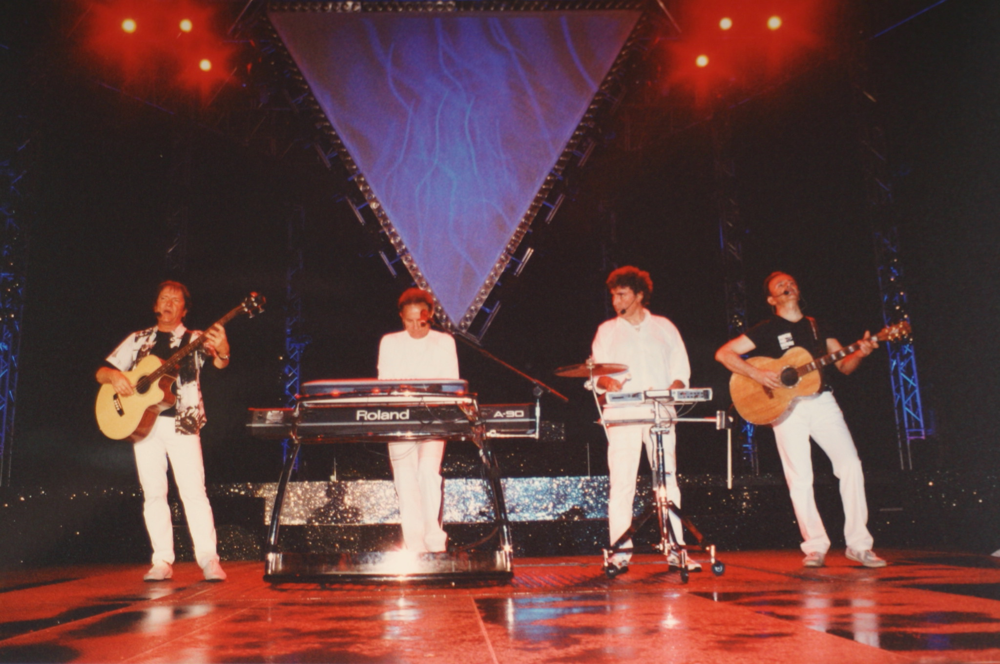 A photo of Pooh in concert in Monza, Italy: Red Canzian, Roby Facchinetti, Stefano D’Orazio and Dodi Battaglia.